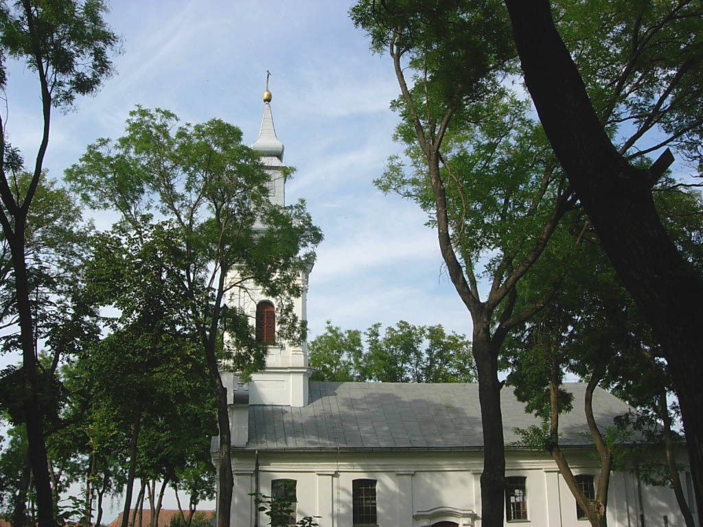 The Orthodox church in Botoš.